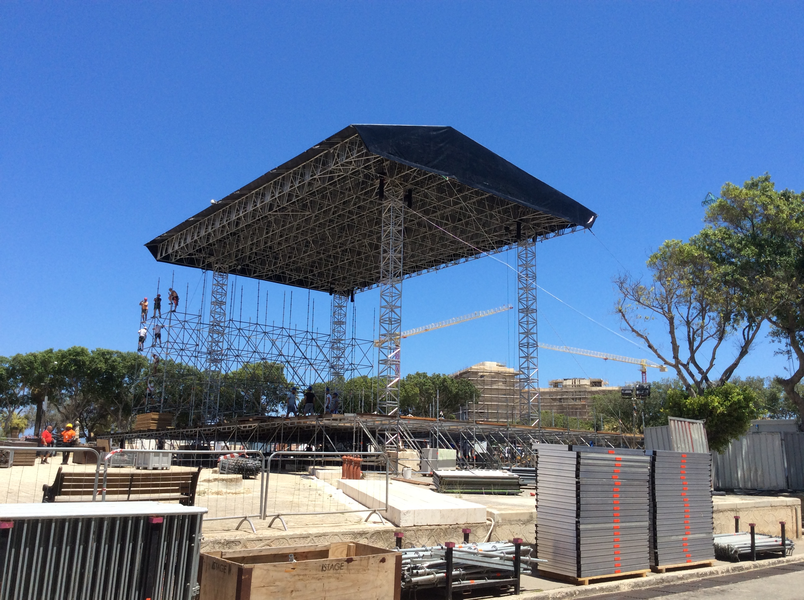 Palk 23 June 2016 Isle of MTV